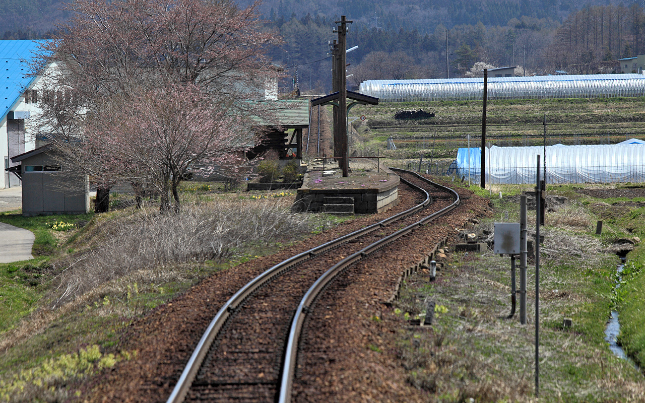 Aizu Railway Aizu-Nagano Station